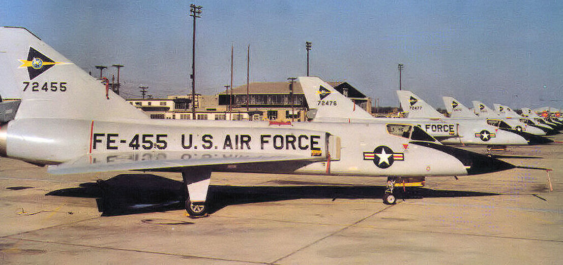 F-106 57-2455 of the USAF 539th Fighter-Interceptor Squadron